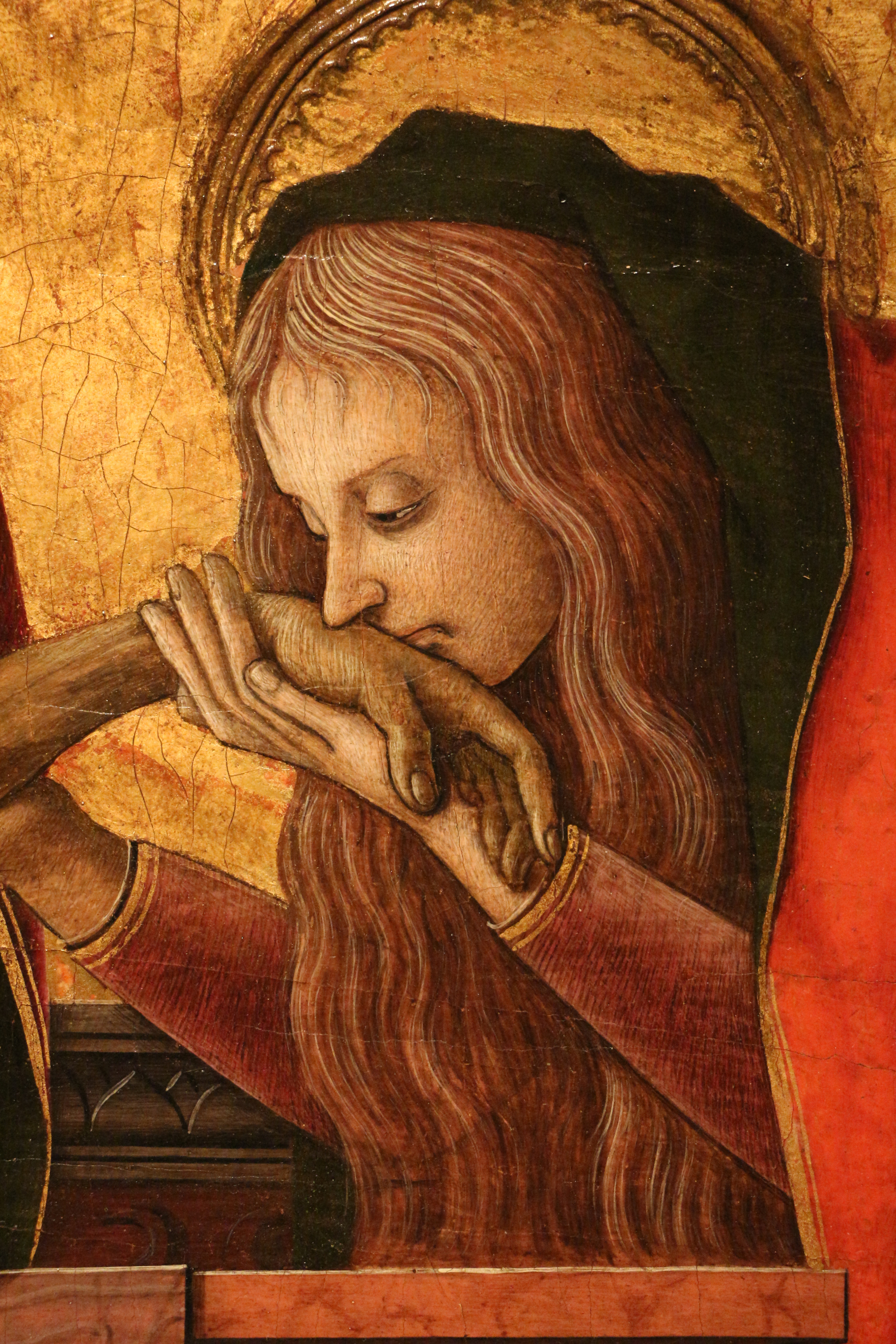 paintings in the Detroit Institute of Arts